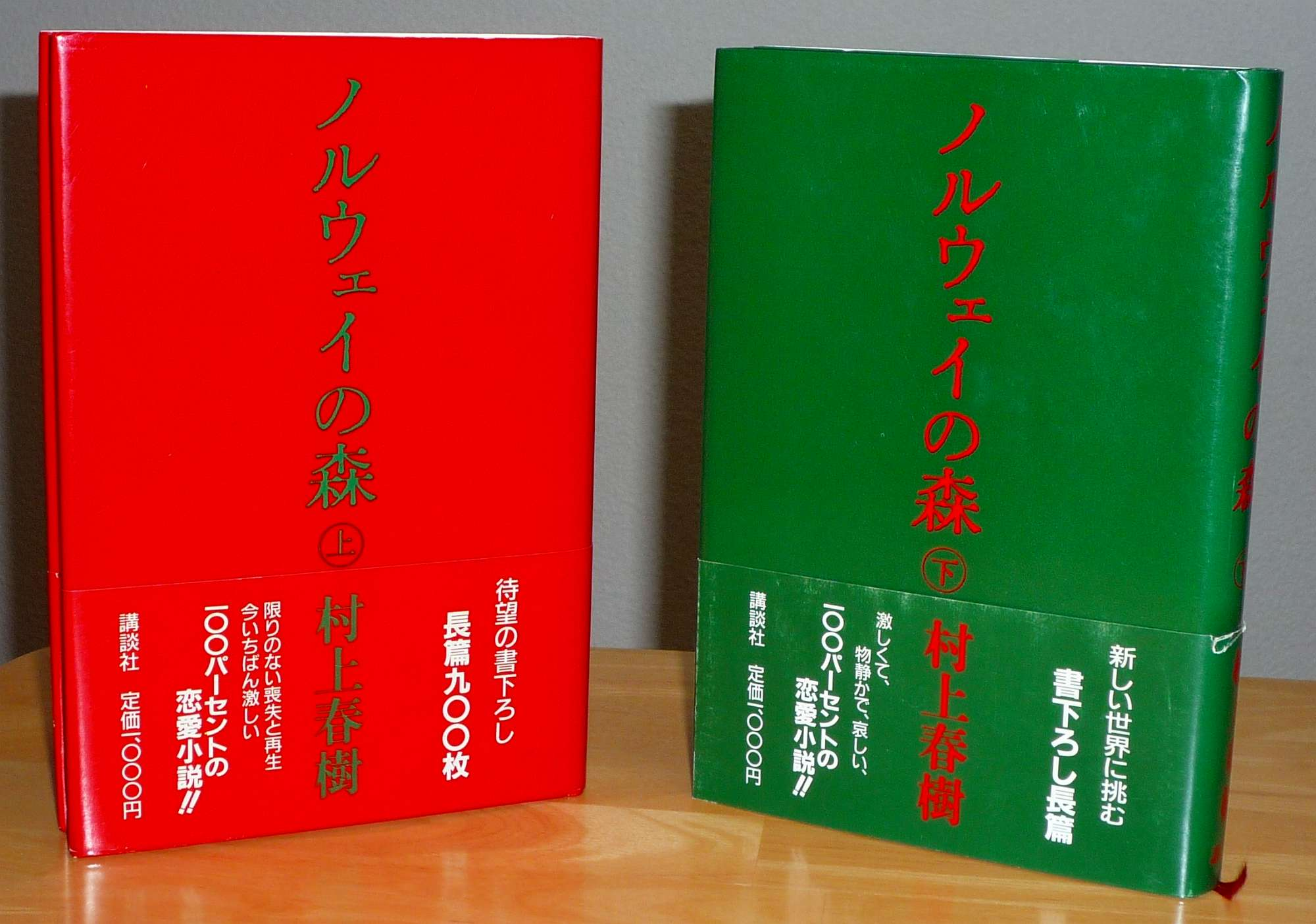 Belly Band of Norwegian Wood 1st edition written by Haruki Murakami